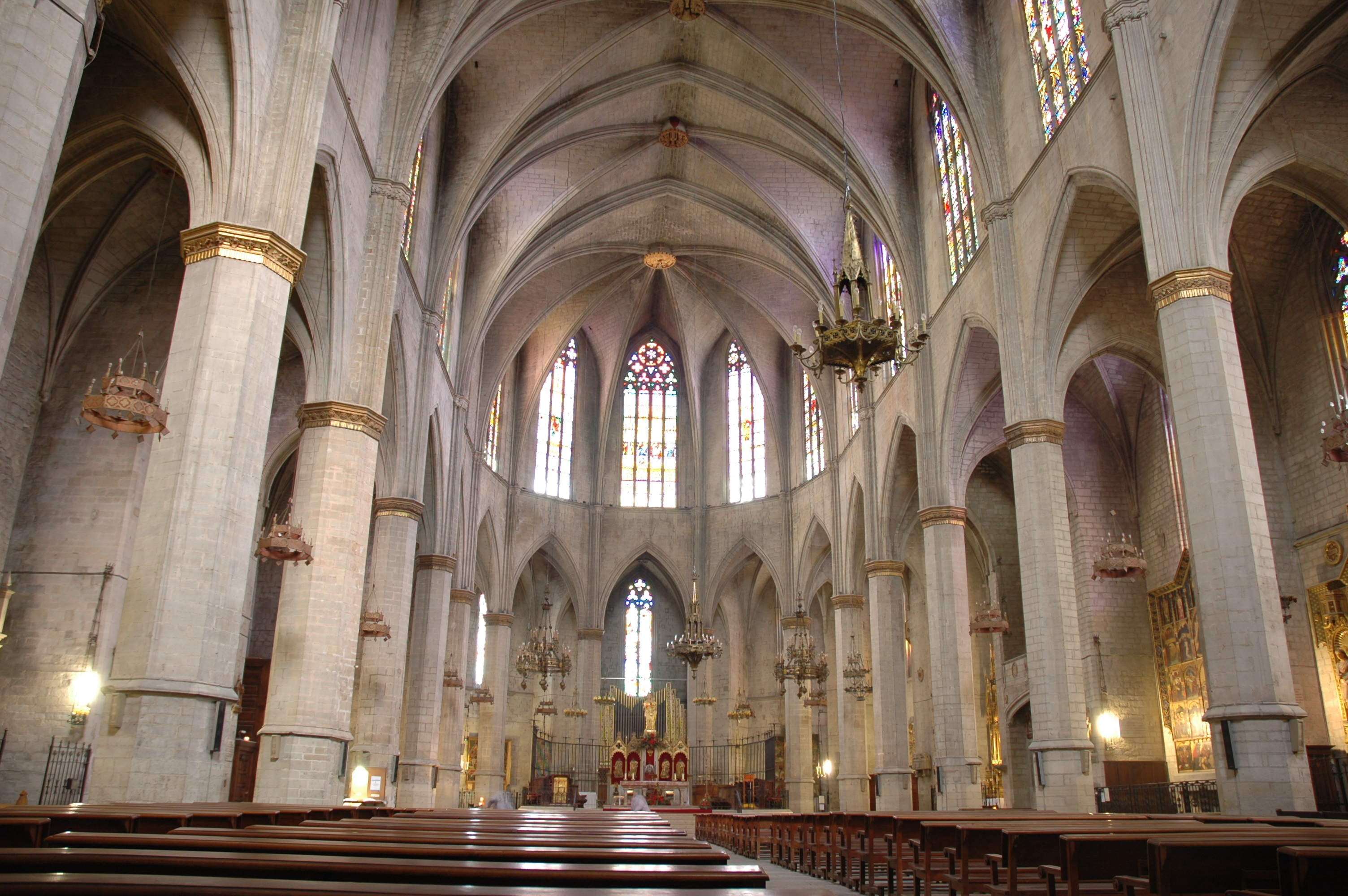 View of the central inner part of the Sau de Manresa cathedral